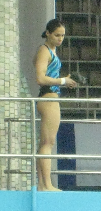 Third day of the 2013 FINA Diving World Series in Moscow. April 28, 2013.